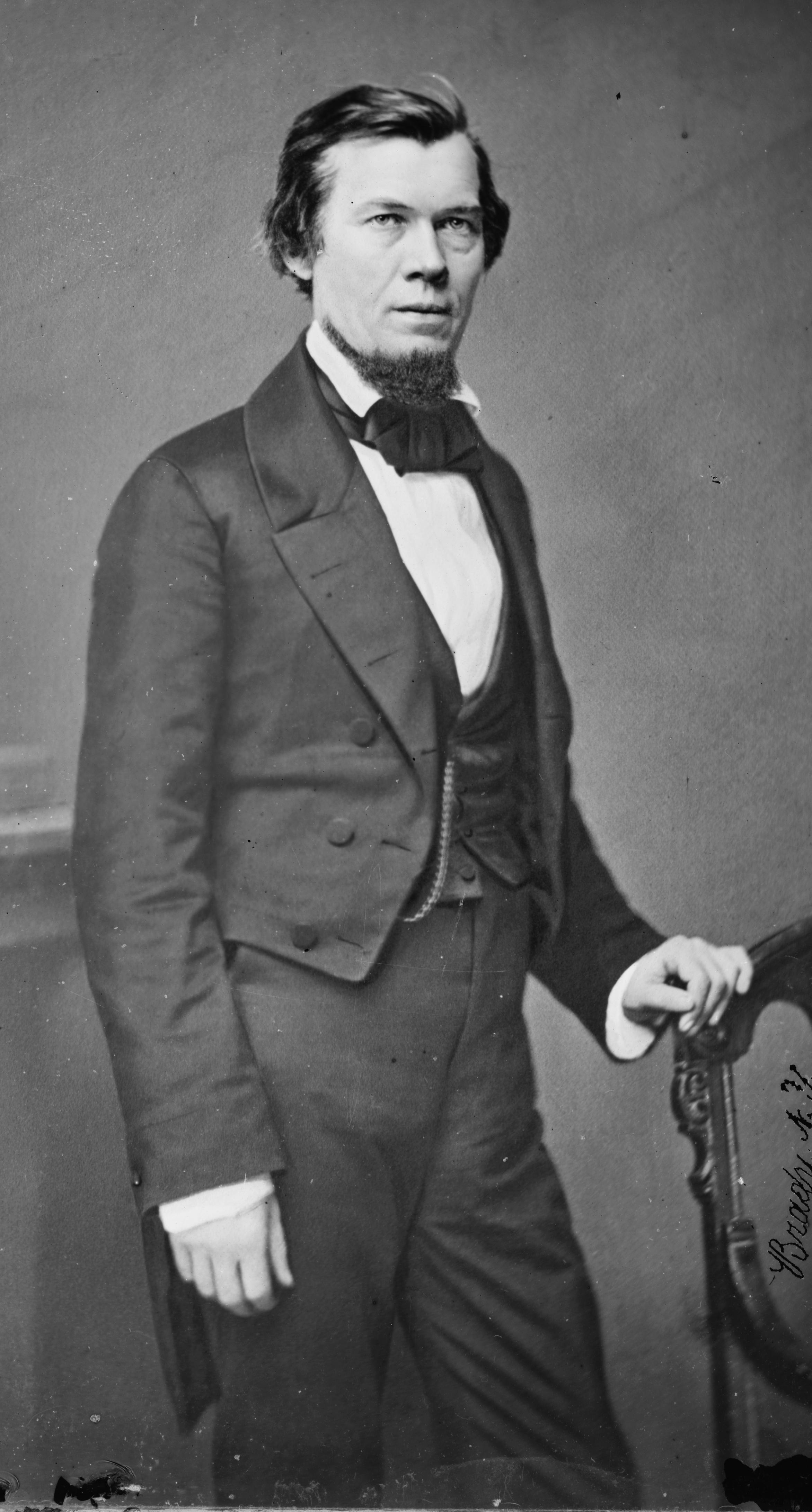 Jacob Thompson. Library of Congress description: "Hon. Jacob Thompson of Miss."